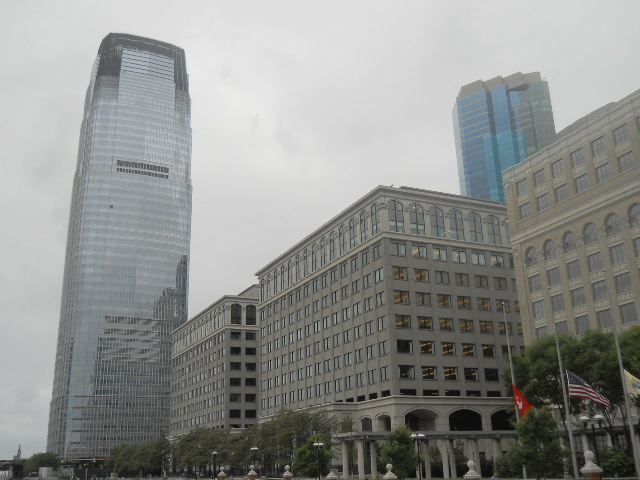 The Goldman Sachs Tower in Jersey City